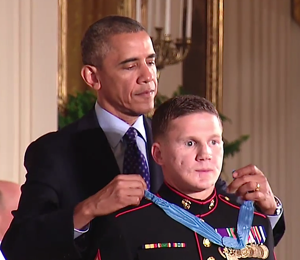 Screen shot of part of video frame (at 19 minutes 4 seconds into 21:26 video) of Kyle Carpenter receiving Medal of Honor from U.S. President Obama. YouTube video was embedded in website.